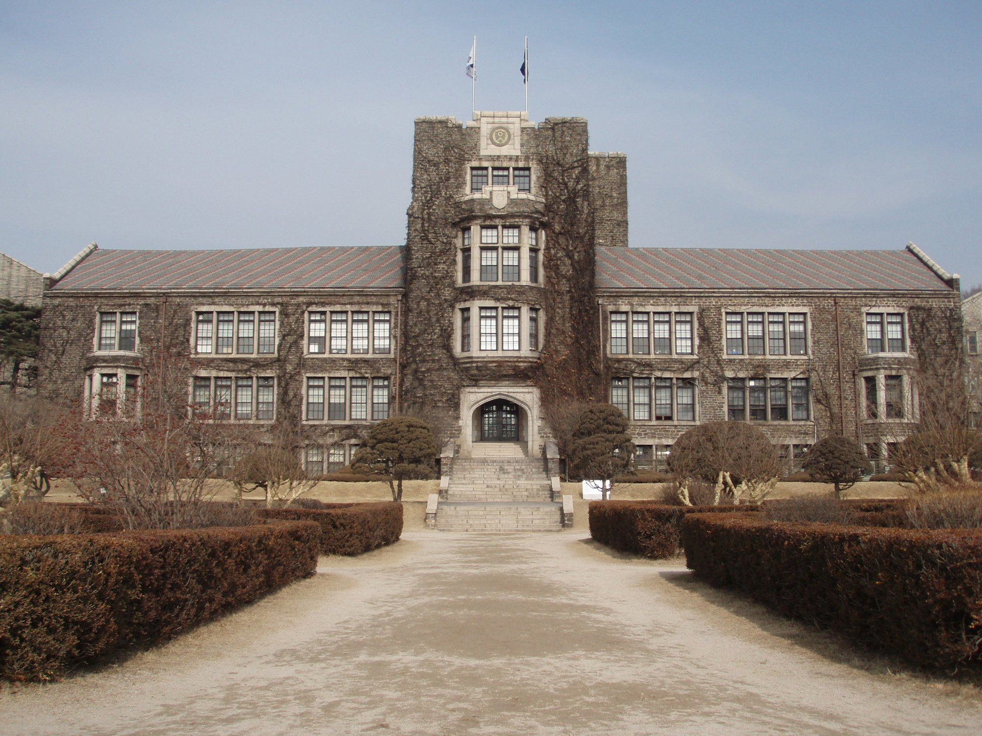 underwood hall, yonsei university